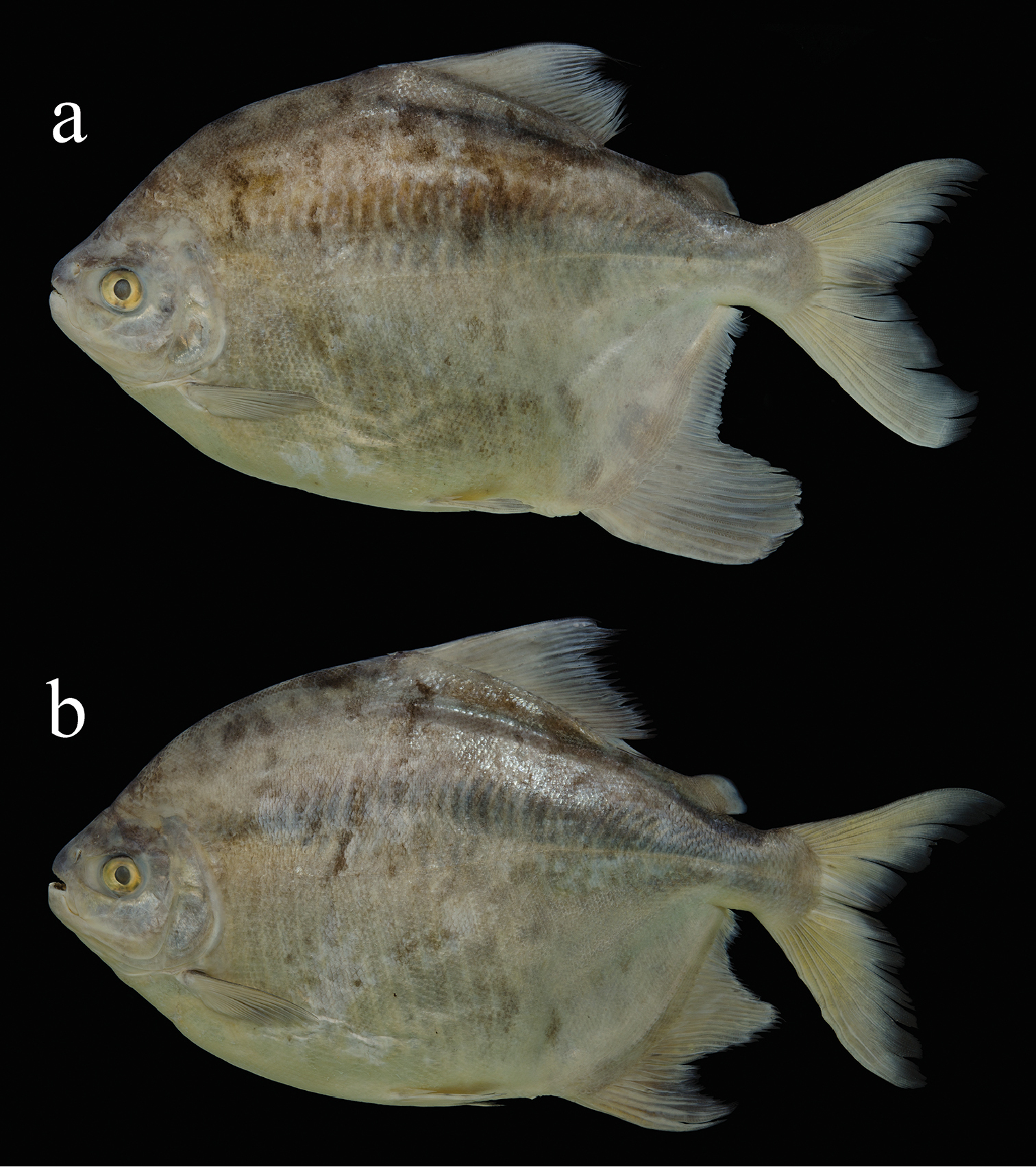 Myloplus zorroi, a species from Rio Madeira Basin. A: holotype, INPA 50880, female 326.2 mm SL. B: paratype, INPA 50868, male 339.5 mm SL.